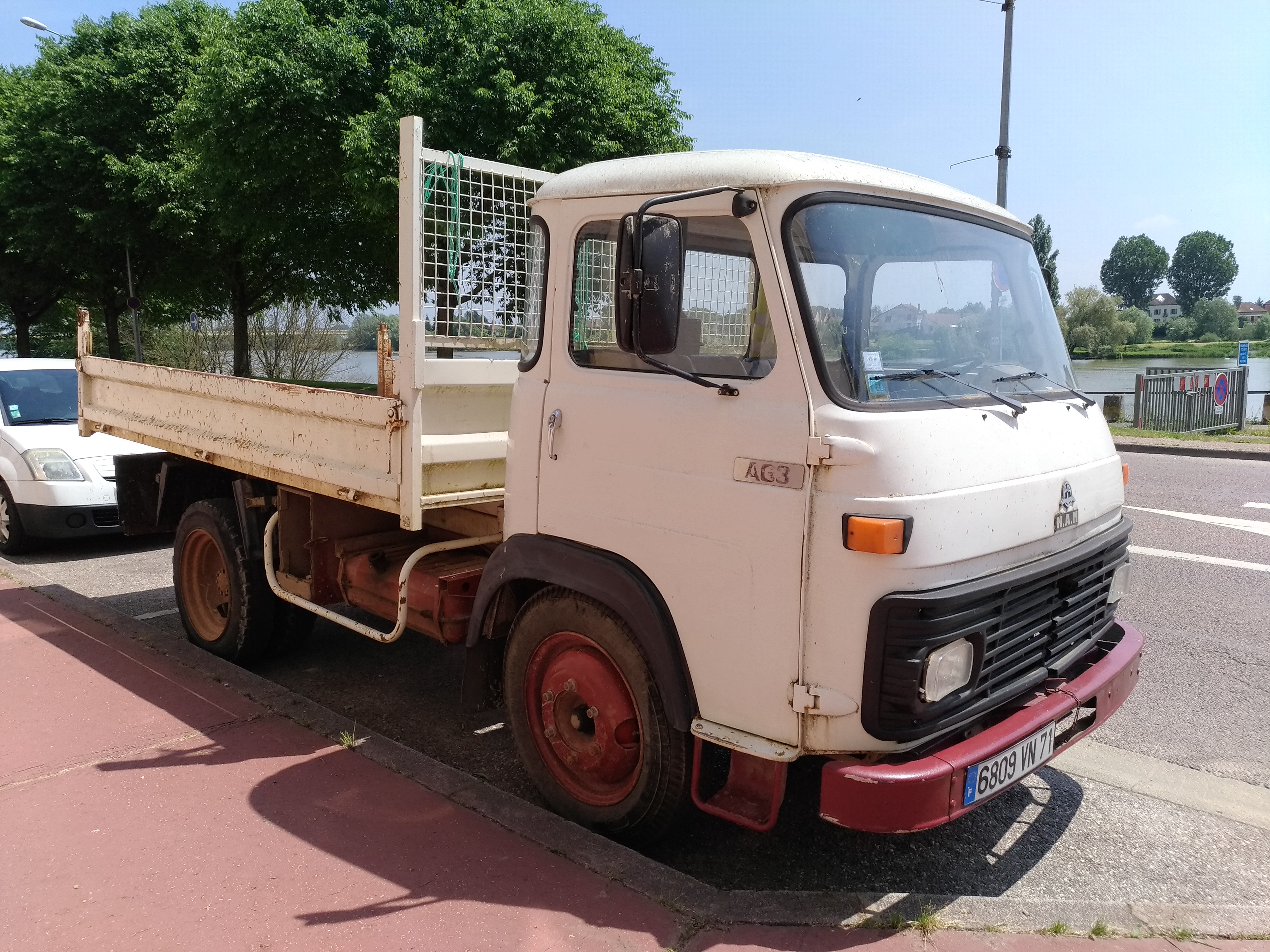 1994 Avia A-21 at Chalon sur Saone